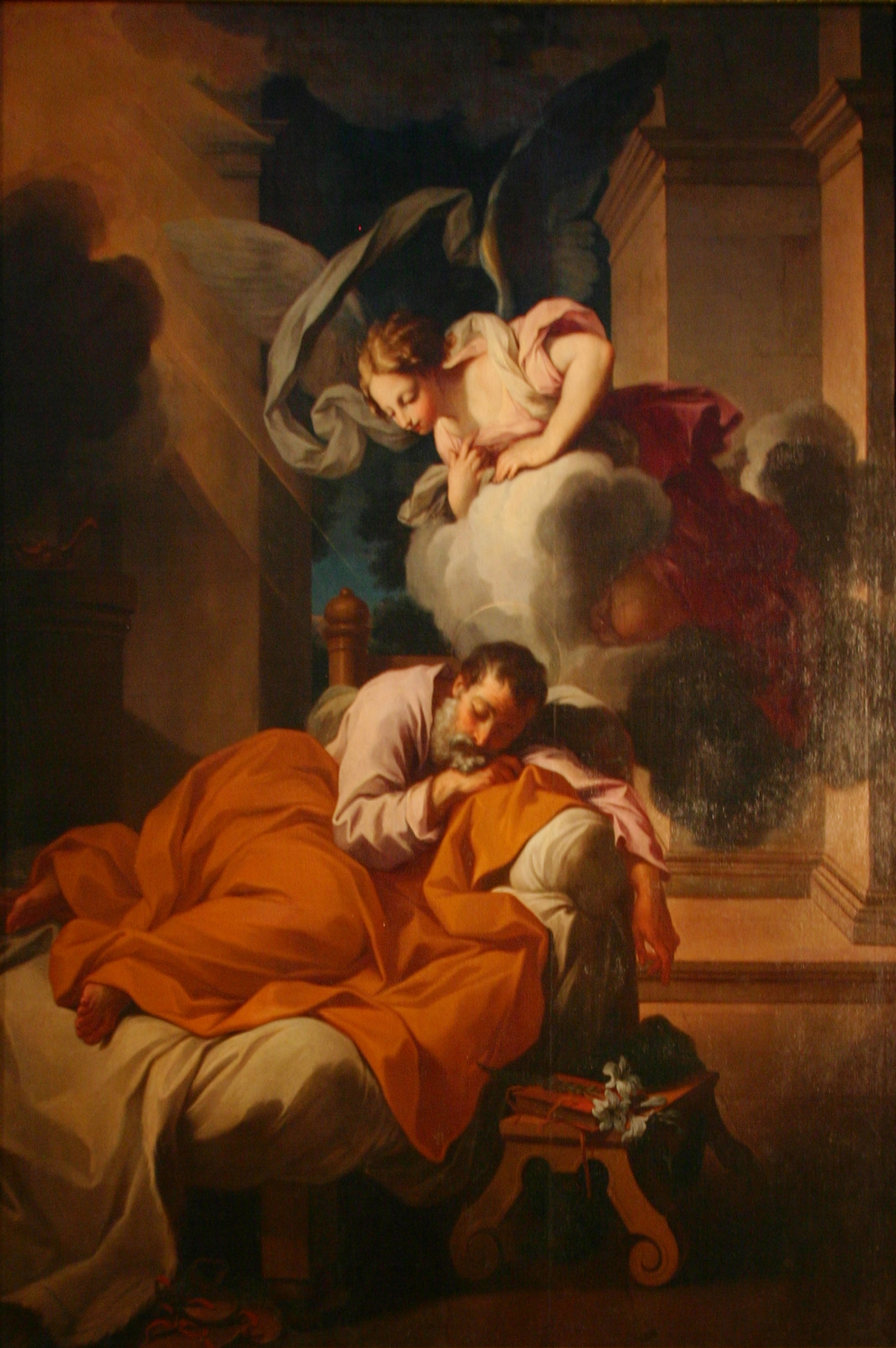 Cathédrale Notre-Dame-et-Saint-Castor